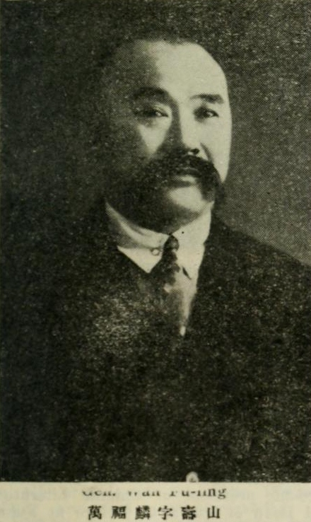 Wan Fulin, Shoushan (1880 - 1951)